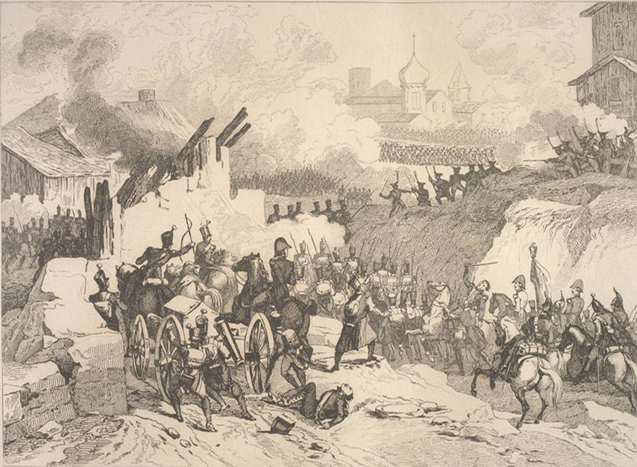 Battle between Russian and French troops for Maloyaroslavets (Russia) on October, 24, part of the 1812 Napoleon Russian campaign. Title to drawing: Battle of Malo-jaroslawetz. [and] Death of General Delzons. From FRANCE MILITAIRE. // Martinet delt. // Réville sculpt // T.